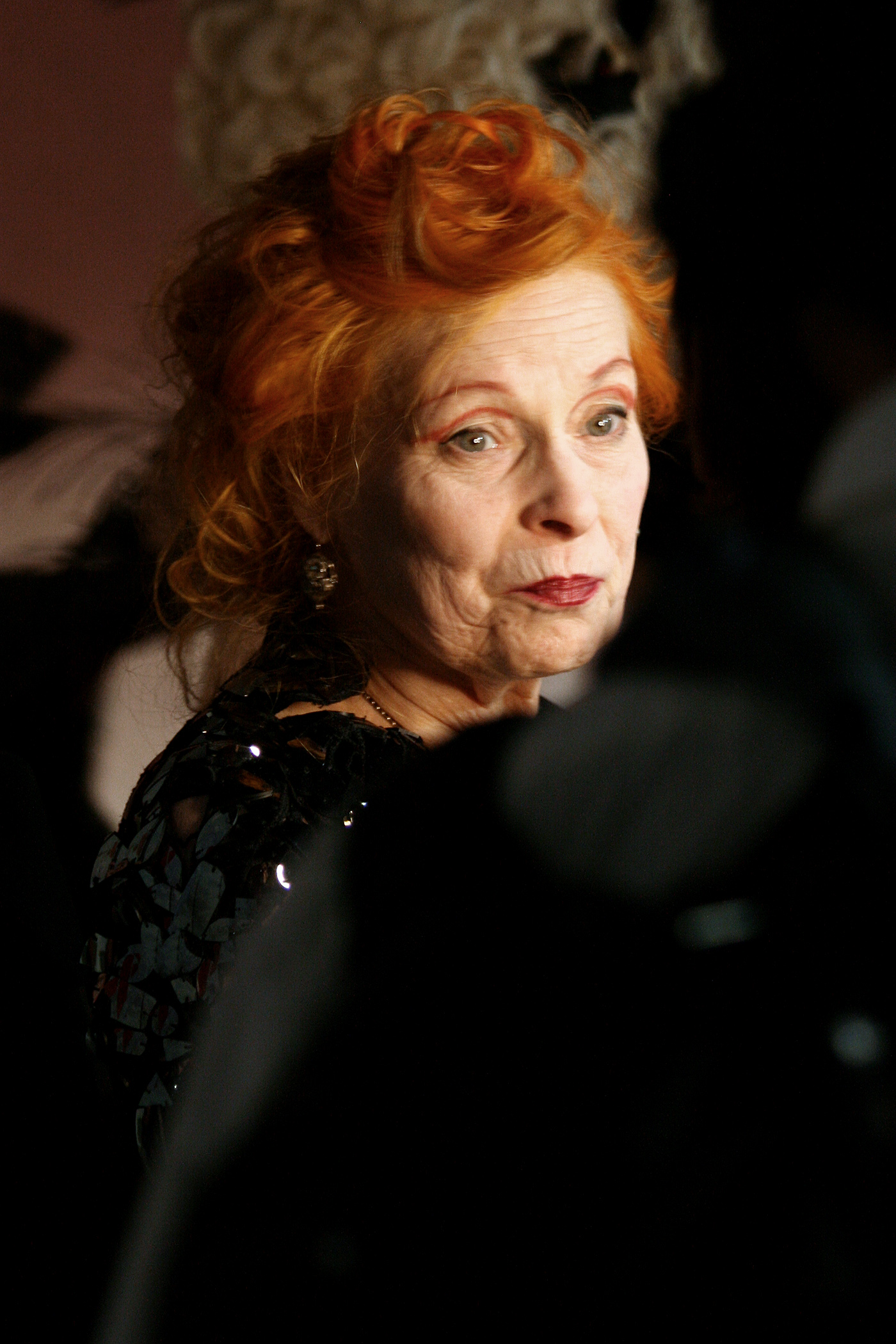 Vivienne Westwood at Life Ball 2011, Rathaus (Town Hall) of Vienna, Austria.